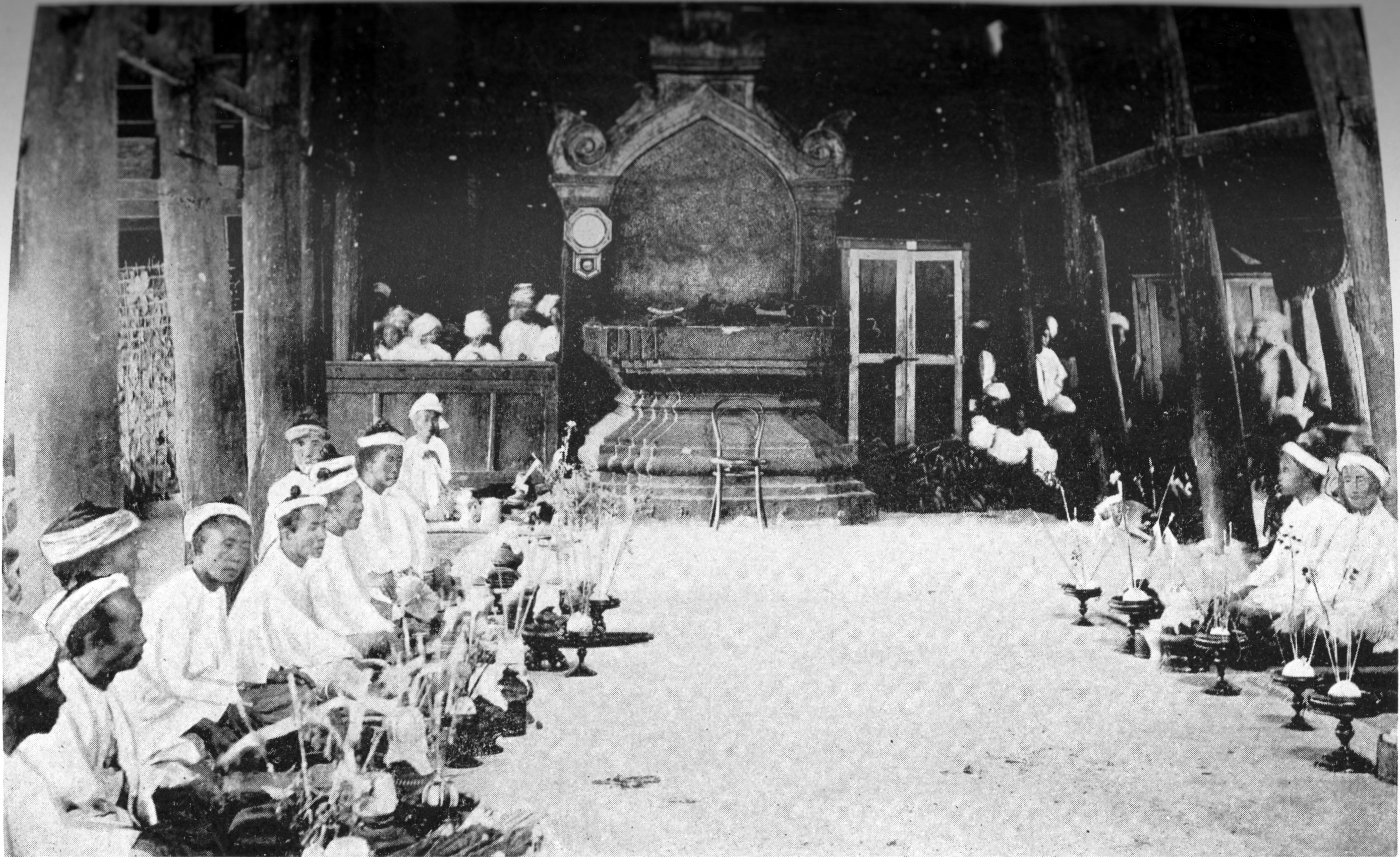 Ministers of a trans-Salween Shan chief (saopha) in hkon dress